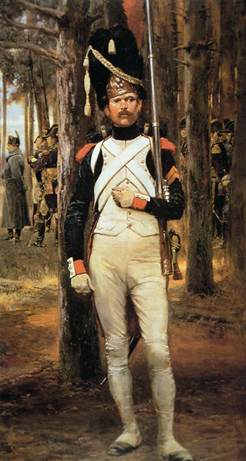 Grenadier of the Old Guard sentinel. In the background, Napoleon and his staff.